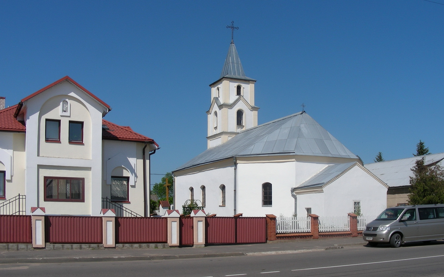 BELARUS / VERHNEDVINSK (Верхнядзвiнск). Catholic church.